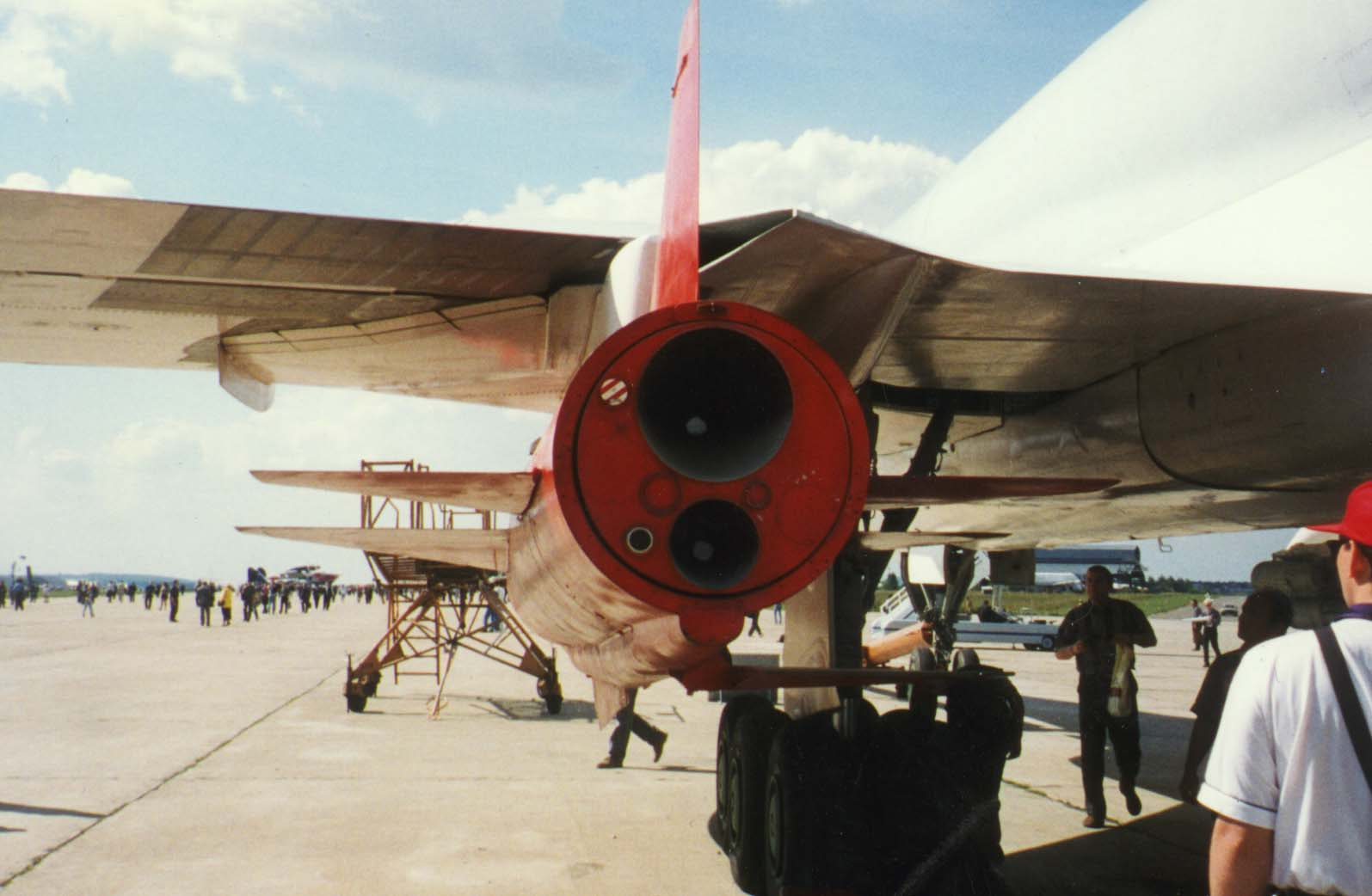 A Raduga Kh-22 anti-ship missile